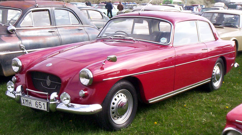 Bristol 407 1962